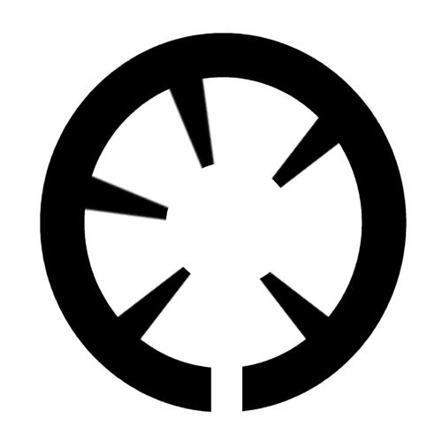 Scematic ground-plan of an ironage Wheelhouse